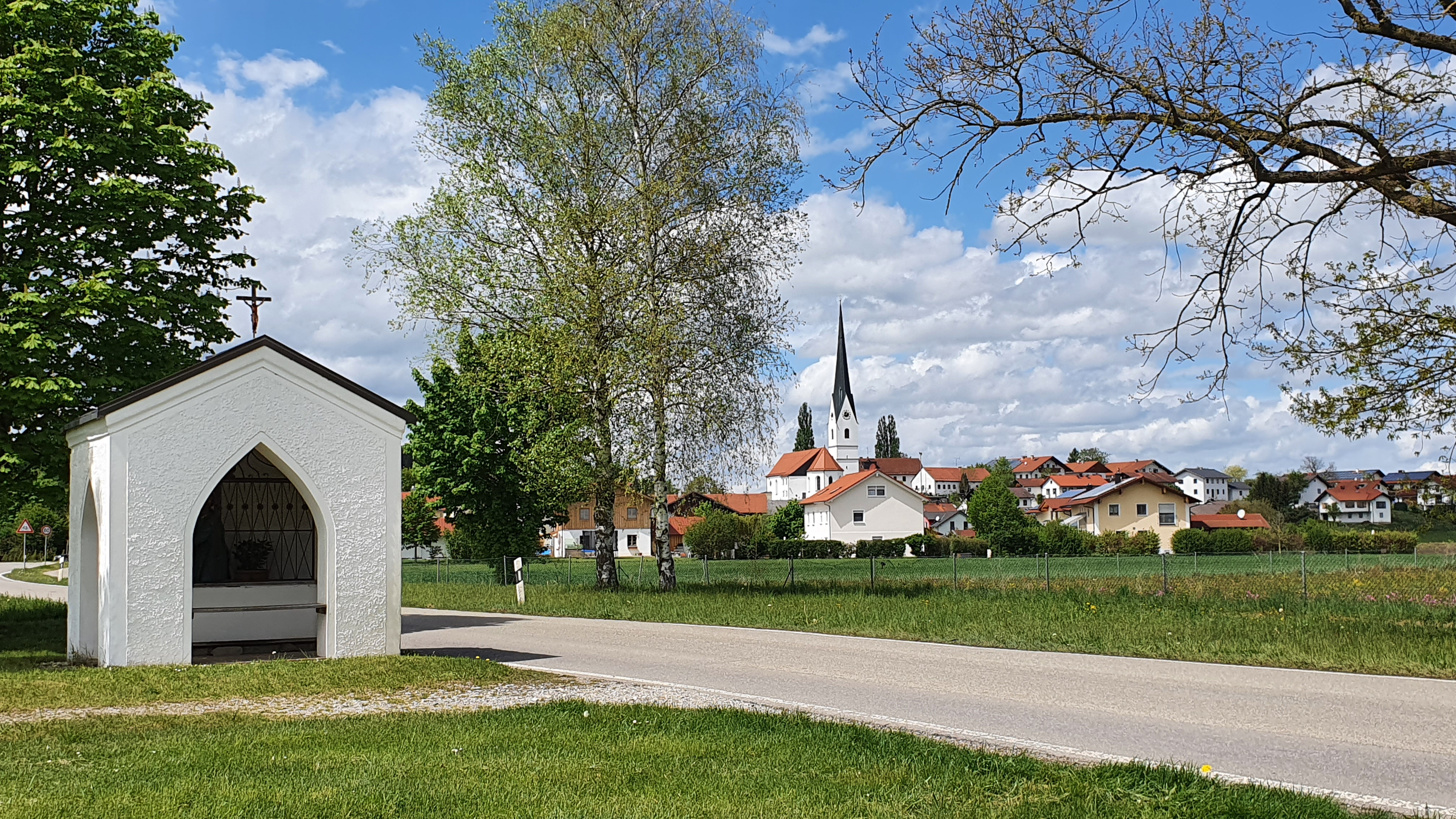 Emmering - View Direction West